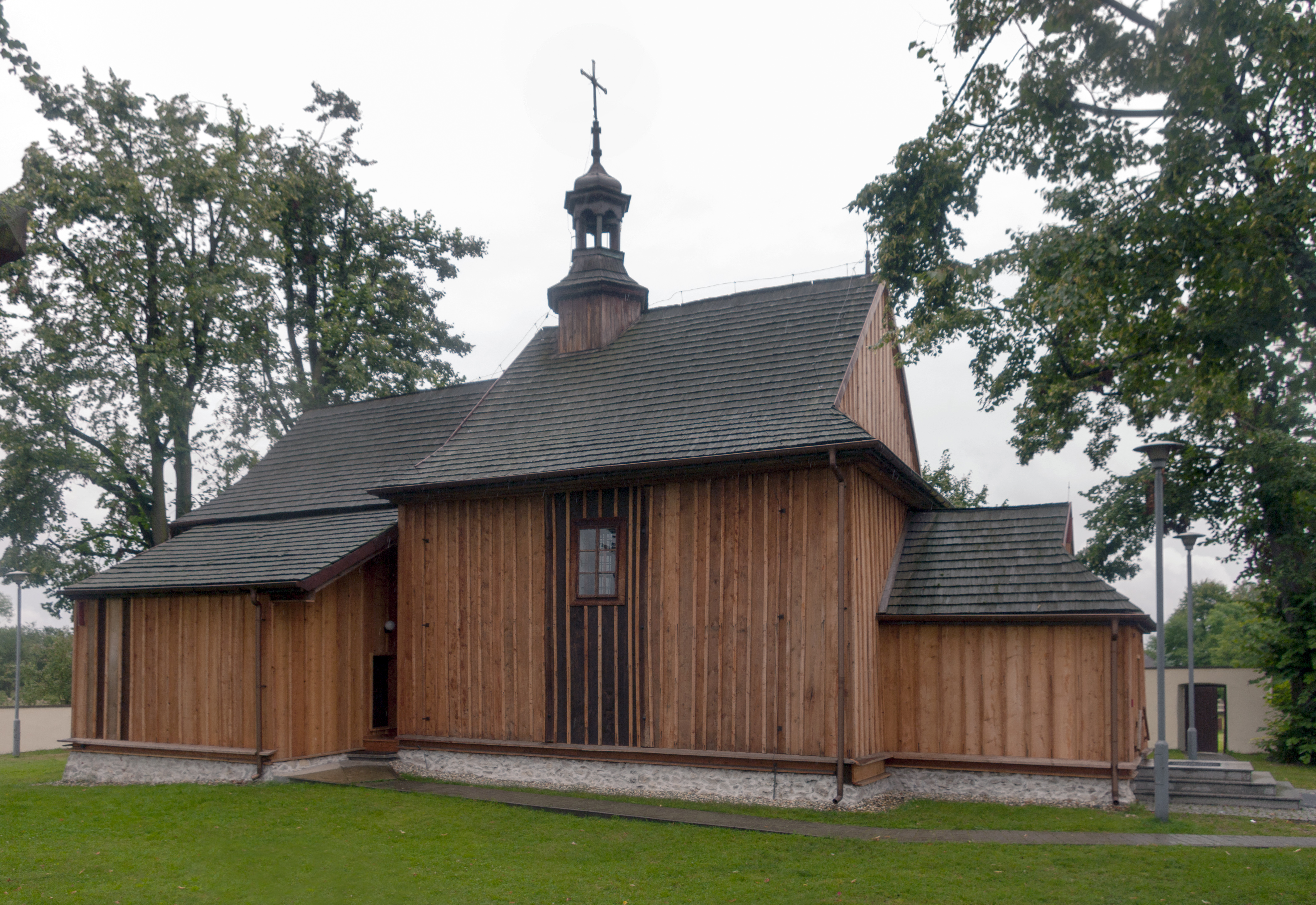 Church of St. Giles in Zrębice, Poland